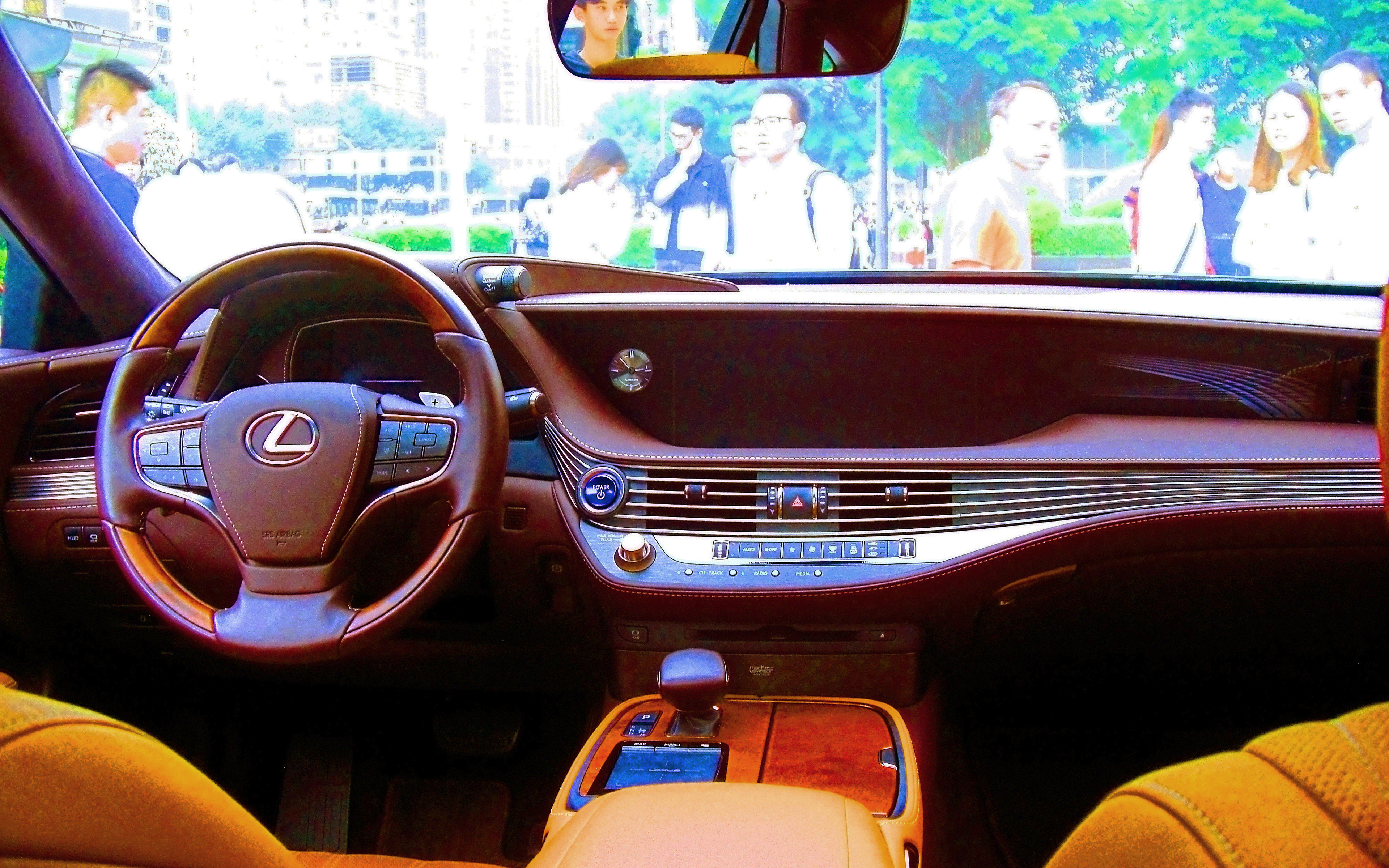 Lexus LS500h 's interior (GVF50) photographed in Tianhe, Guangzhou. It was Made in Tahara, Japan. And it was powered by 8GR-FXS Multi-Stage Hybrid System (Made by Lexus, Toyota).